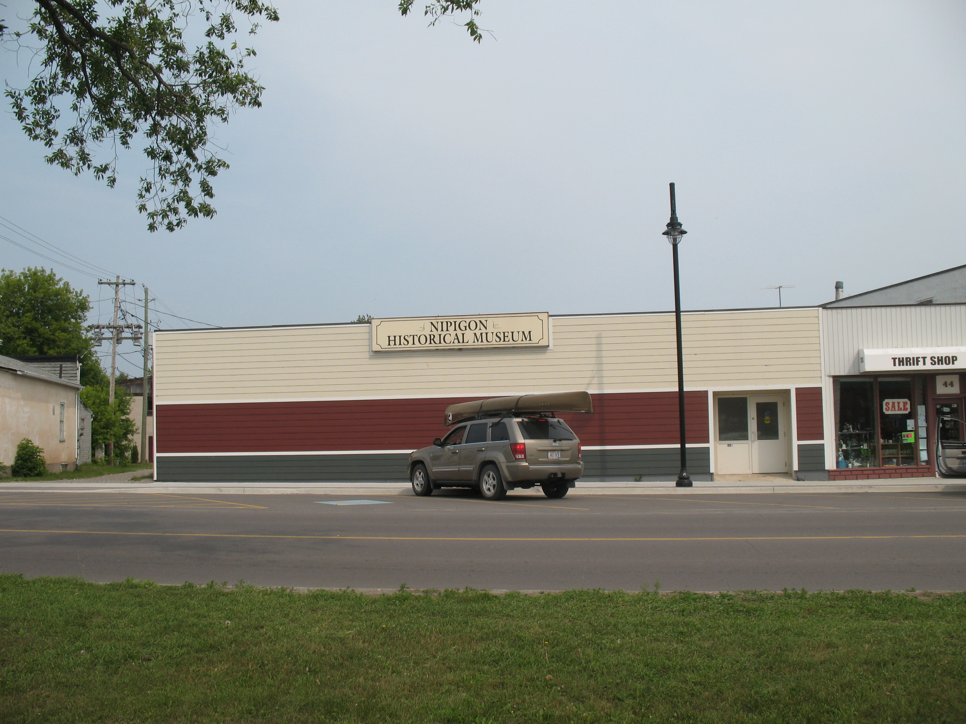 History Museum in Nipigon in the Canadian province of Ontario